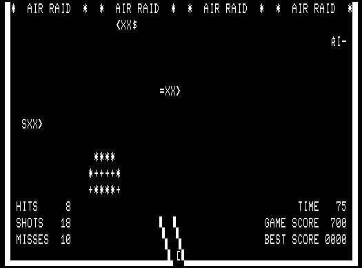 Screentshot of Air Raid, a 1979 TRS-80 video game.